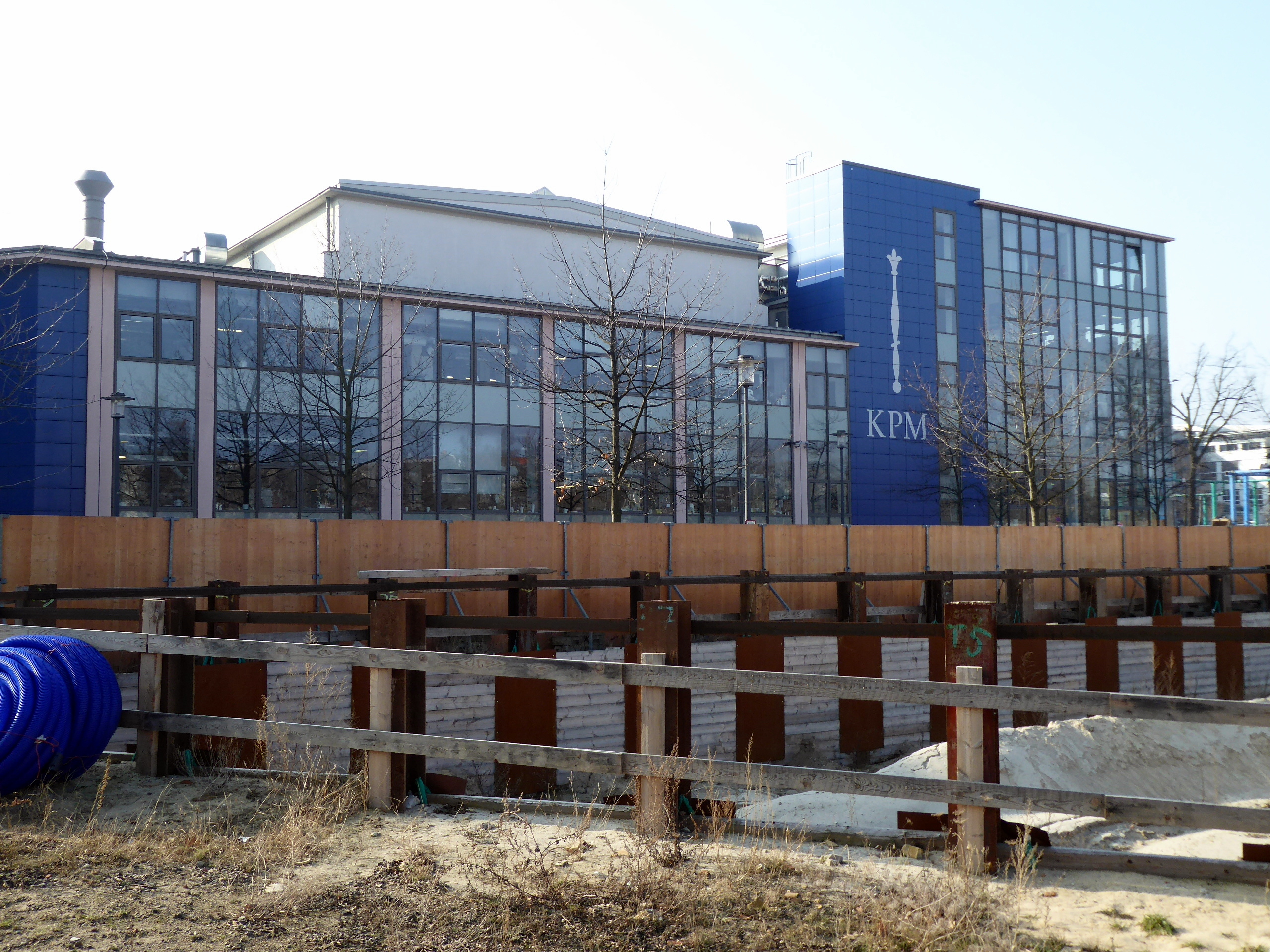 Charlottenburg Wegelystraße "No. 1 Charlottenburg"